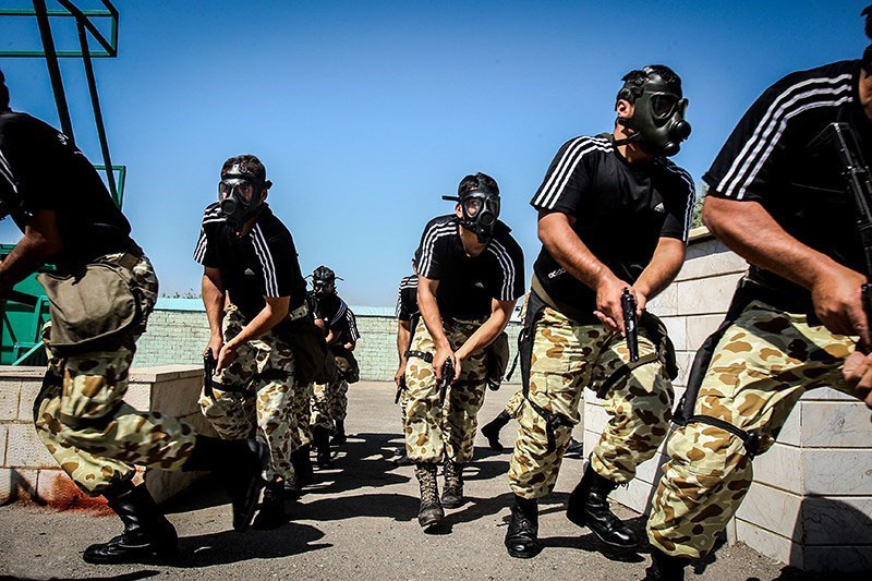 Commandos of 65th Airborne Special Forces Brigade of Iran exercising.